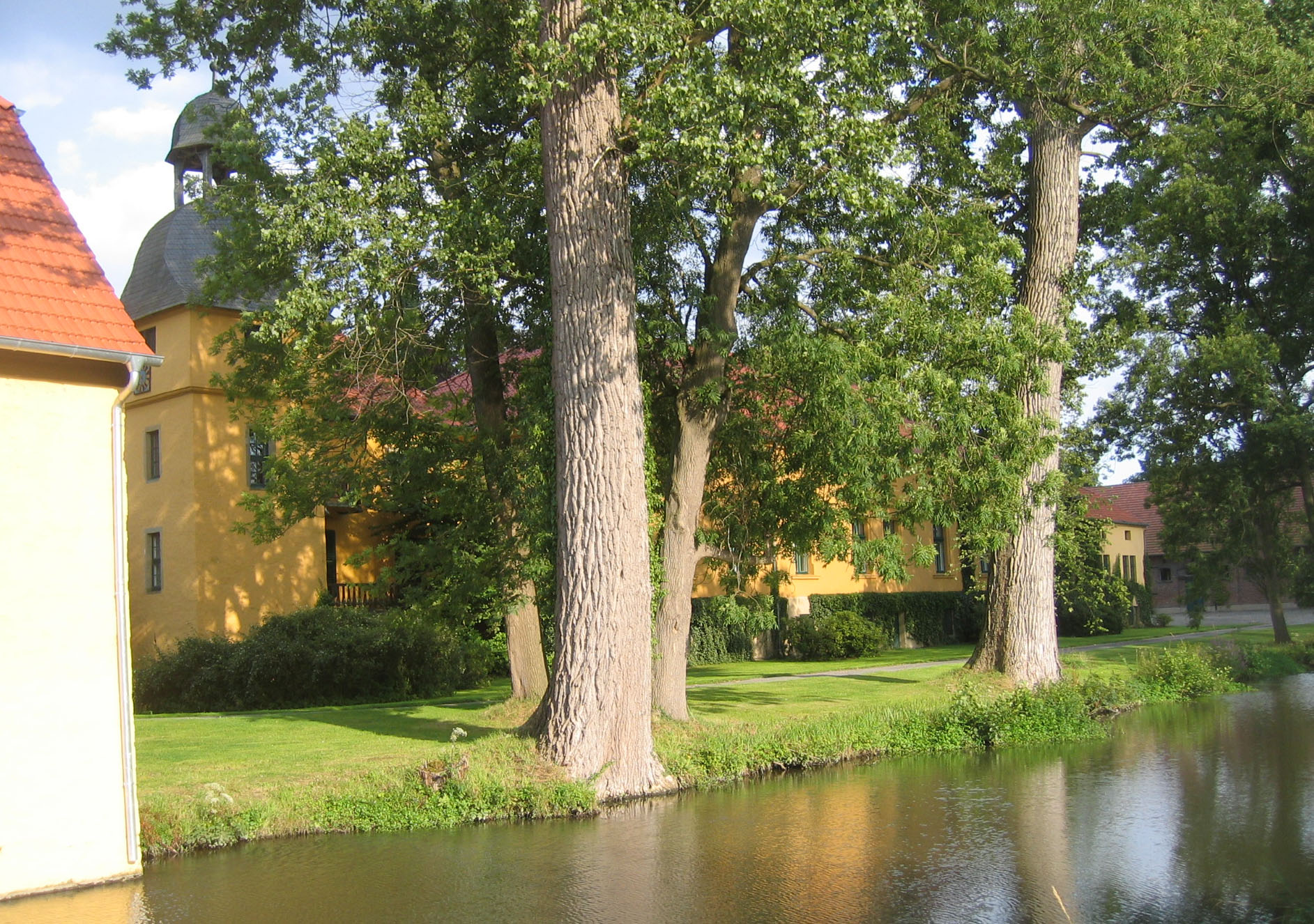 Picture shows a rear view of the main building of Gut Böckel near Rödinghausen-Bieren, Germany.